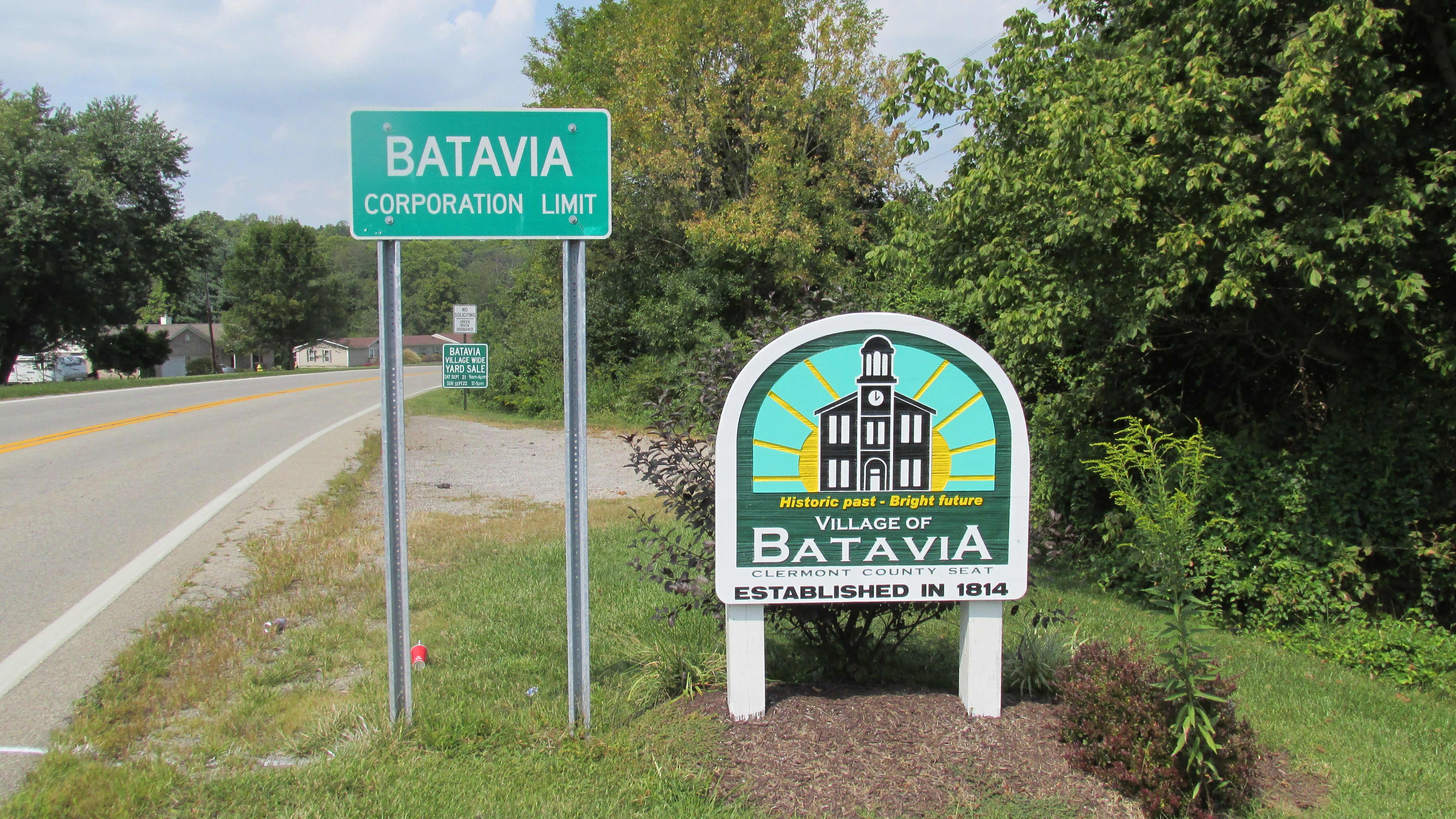 Batavia, Ohio corporation limit sign.